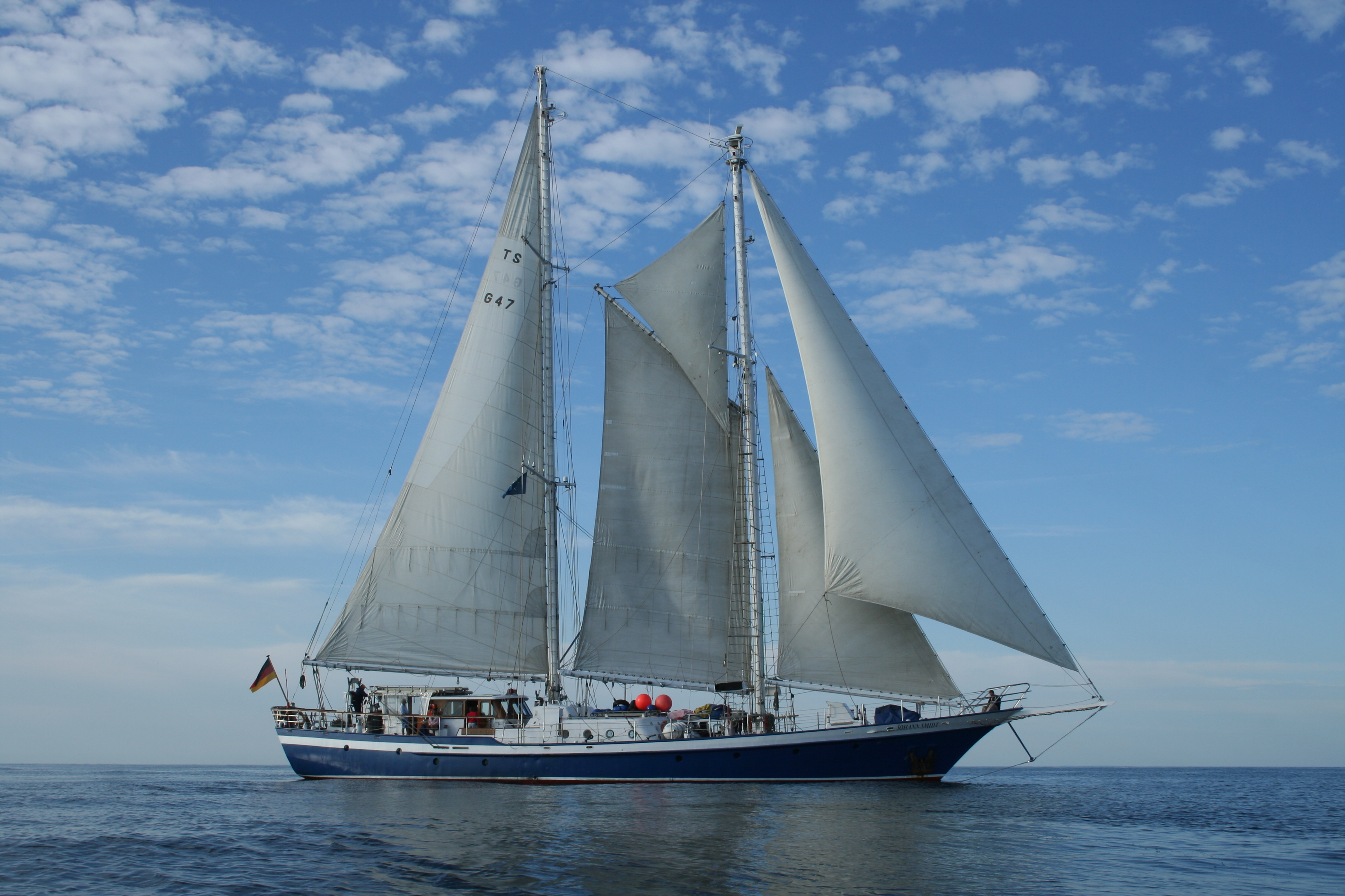 Johann Smid, two-masted schooner, built 1974, Position of Photo: Baltic Sea, between Sassnitz (Rügen) and Nexo (Bornhom)